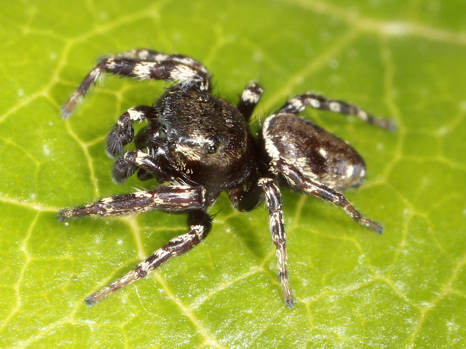 Adult male Pelegrina aeneola jumping spider collected in Yosemite Valley, Mariposa County, California.